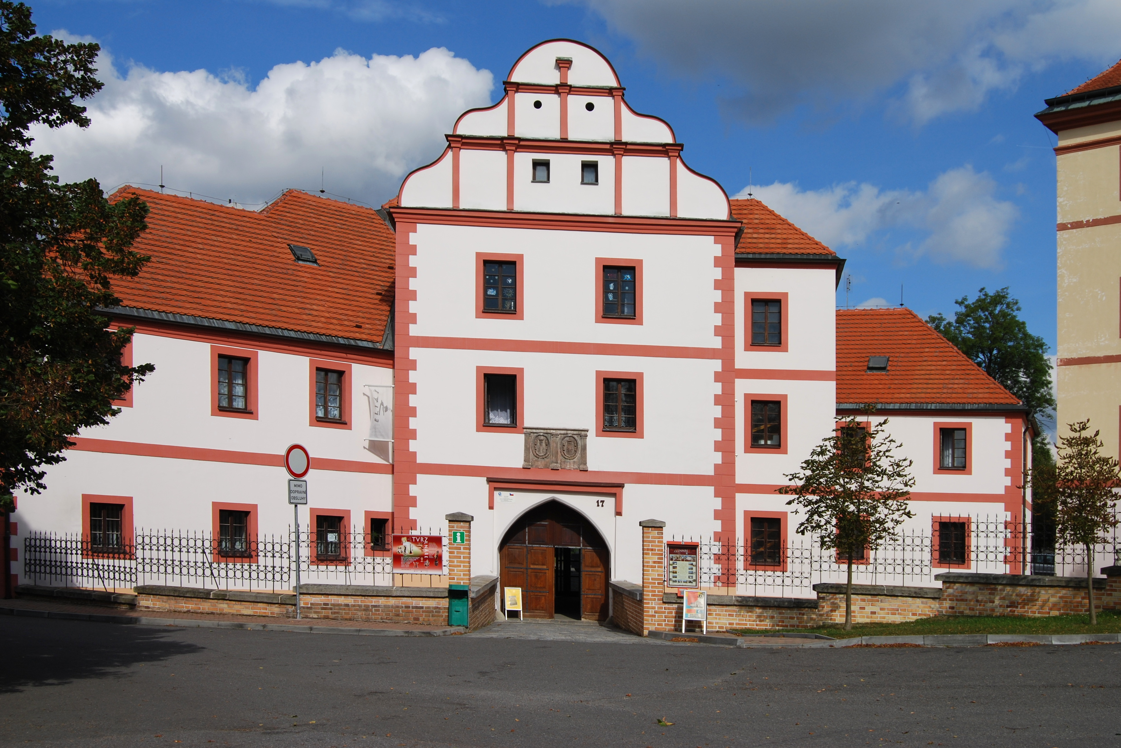 "Stará tvrz" in Lnáře town, Strakonice District, Czech Republic. Entrance